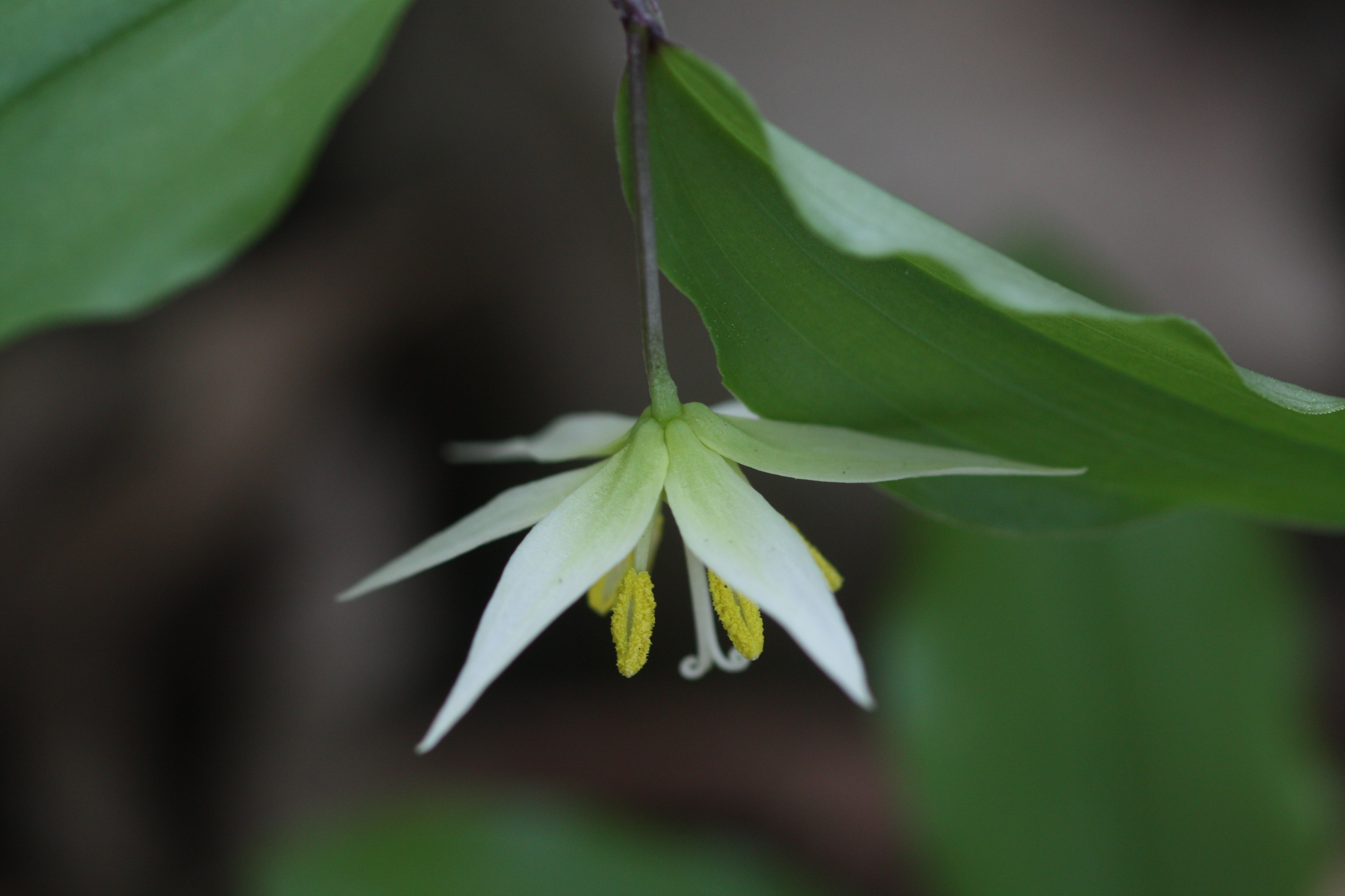 Disporum smilacinum